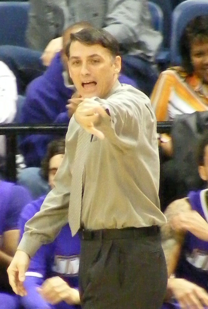 Matt Brady, coach of the James Madison University men's basketball team